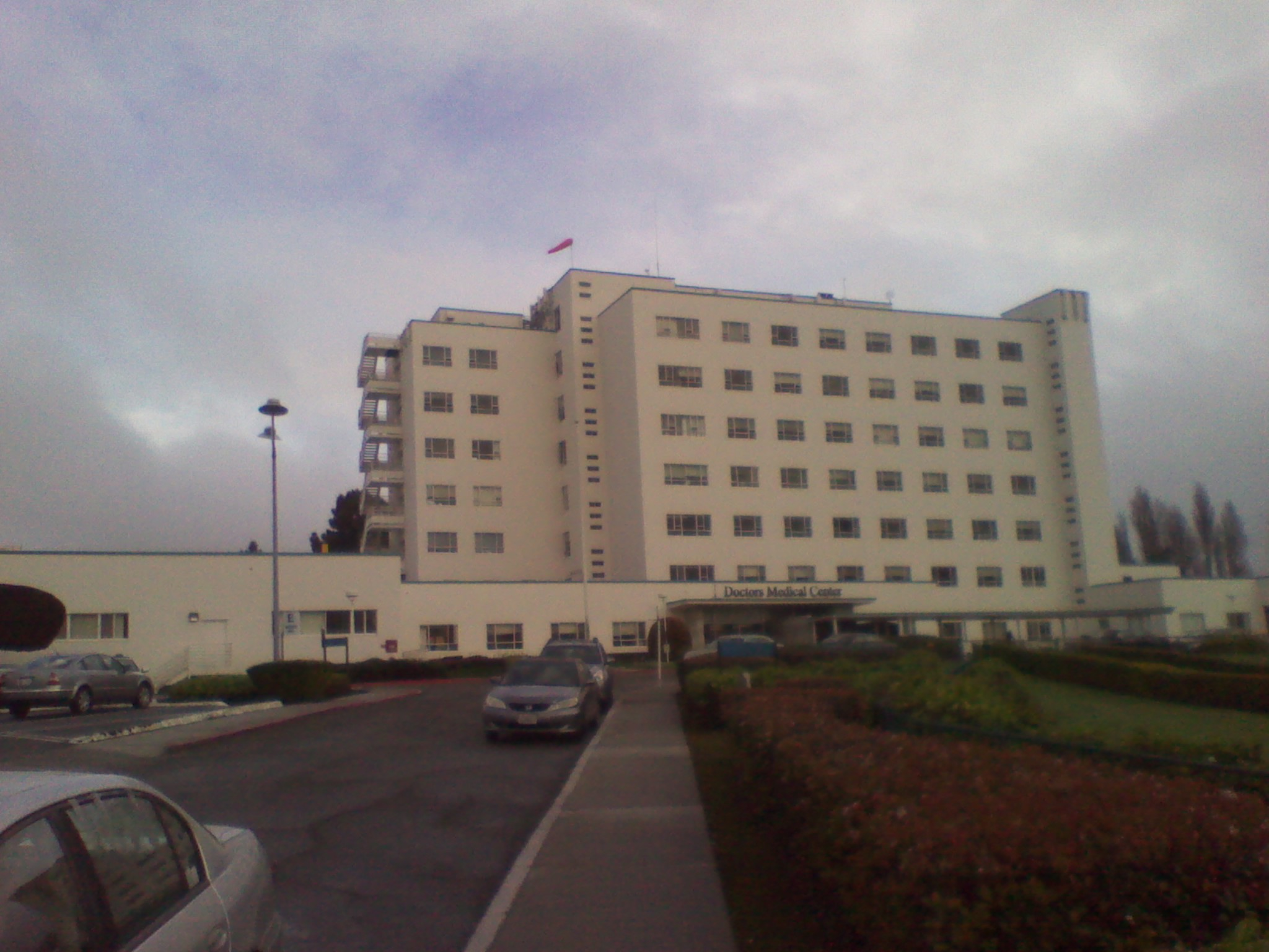 took it today